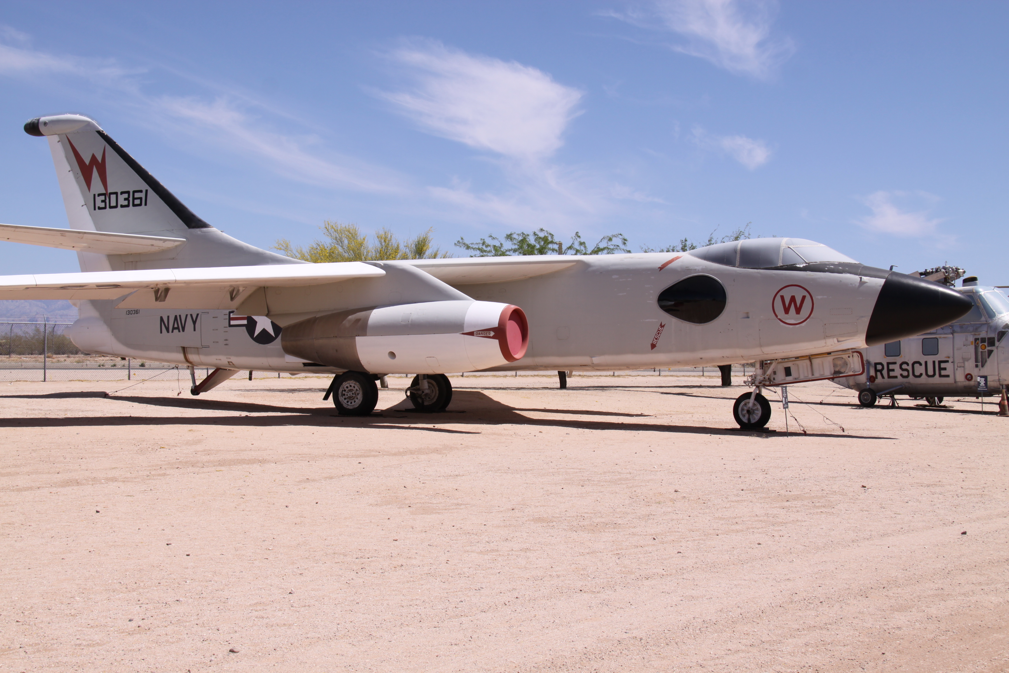 At Pima Air & Space Museum